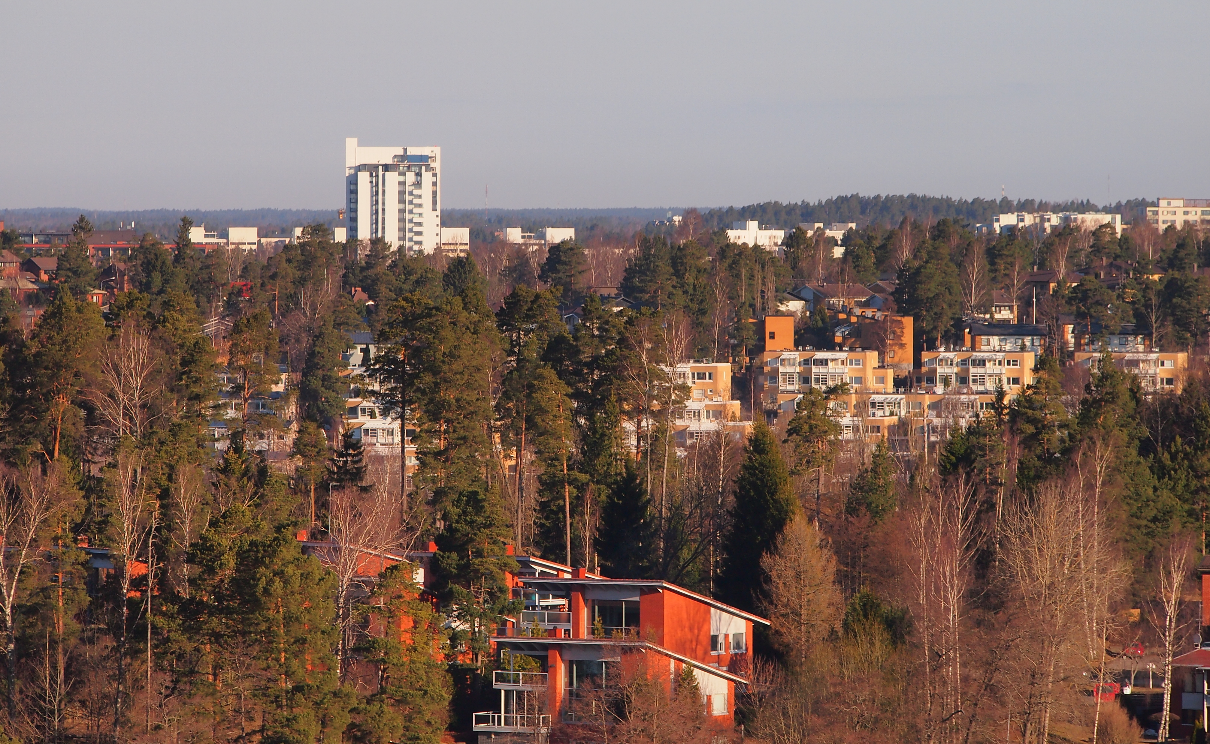 Espoonlahti in south-western Espoo, Finland. A typical Finnish suburban scenery.